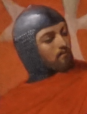 Constantine III